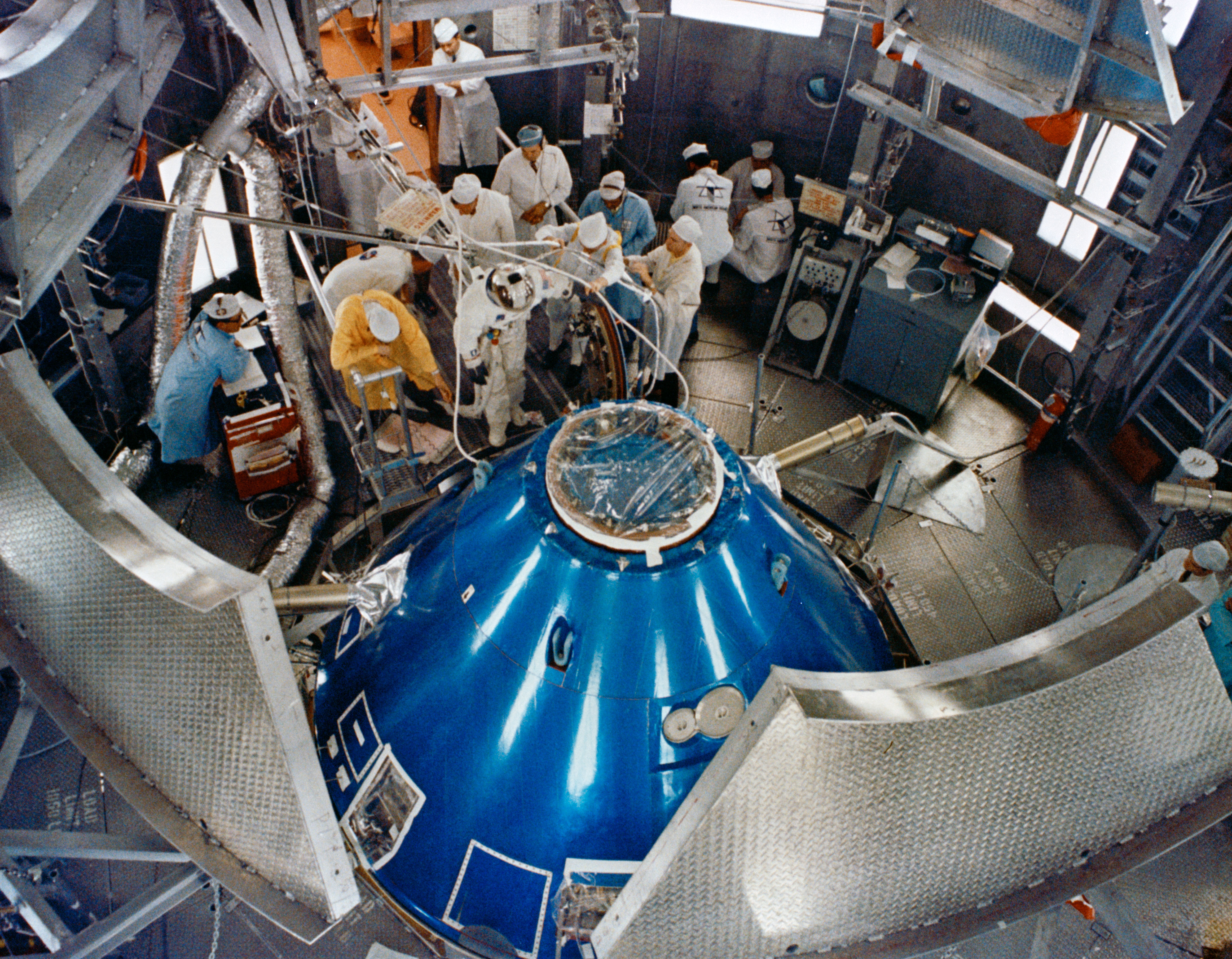 Overhead view of Altitude Chamber "L" in the Kennedy Space Center's Manned Spacecraft Operations Building showing a member of the Apollo 9 backup crew preparing to ingress the Apollo 9 spacecraft for egress test and simulated altitude run. The Apollo 9 backup crew consists of astronauts Charles Conrad Jr., Richard F. Gordon Jr., and Alan L. Bean.